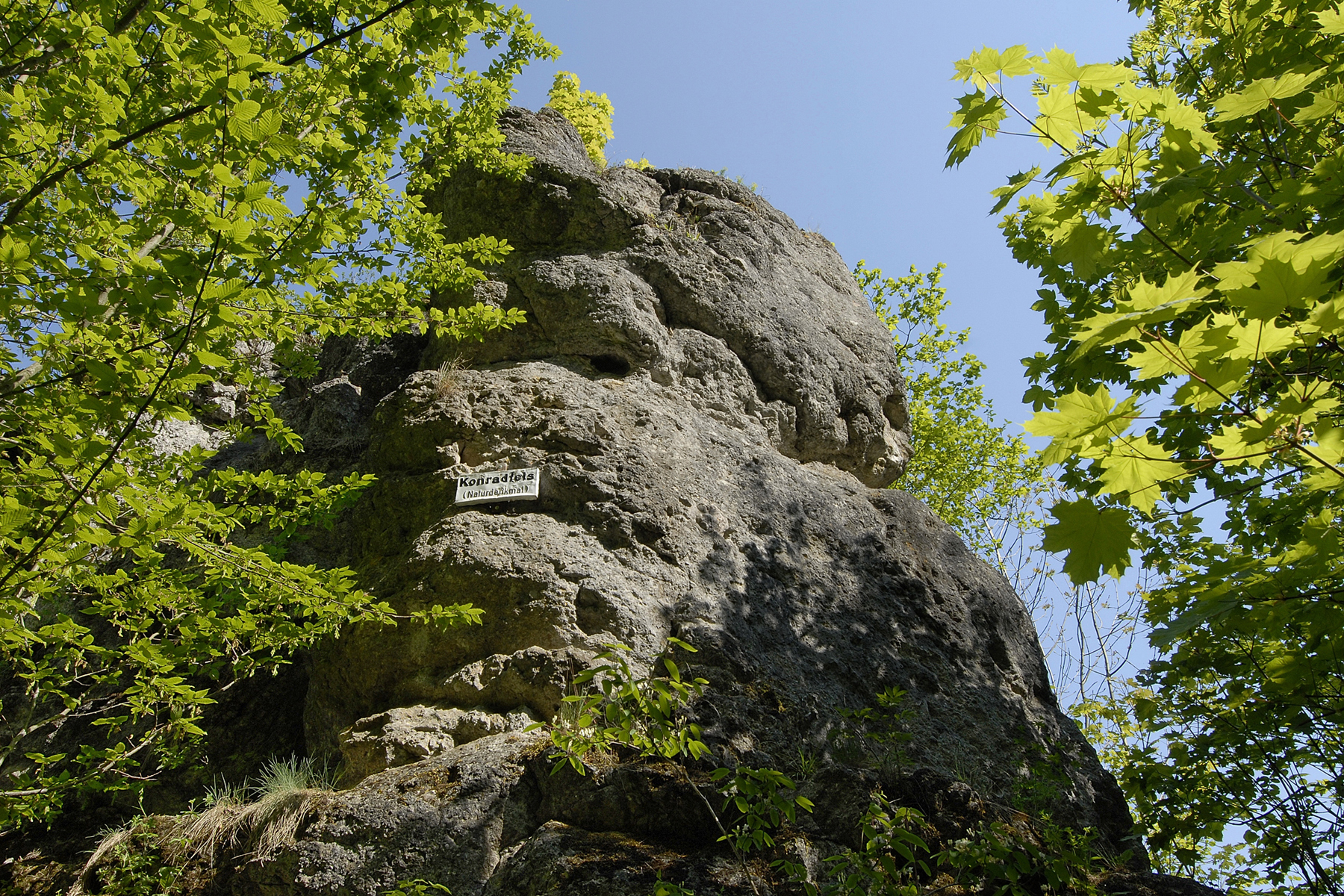 Top of Konradfels, Middle Swabian Alb. volcanic rock, lithified rest of a volcanic pipe of a phreatomagmatic volcano of the “Urach-Kirchheimer Vulkangebiet” (Swabian Volcanoes). The not dark gray fragments within the mass of tuff are Xenolithes (non volcanic material), mostly White Jurassic of the Swabian Alb. The pipe’s volcanic rock contains magnetized minerals, which produce magnetic anomalies in relation to the earth’s magnetic field. Here and next to the top of Calver Bühl (at Dettingen an der Erms) compass data are therefore extremely false. Only in very few cases volcanic rock is visible on the bare surface. Only due to sensitive geophysical methods, which traced anomalies, was it possible to double the findings of volcanic pipes to contemporary 356 (2016).